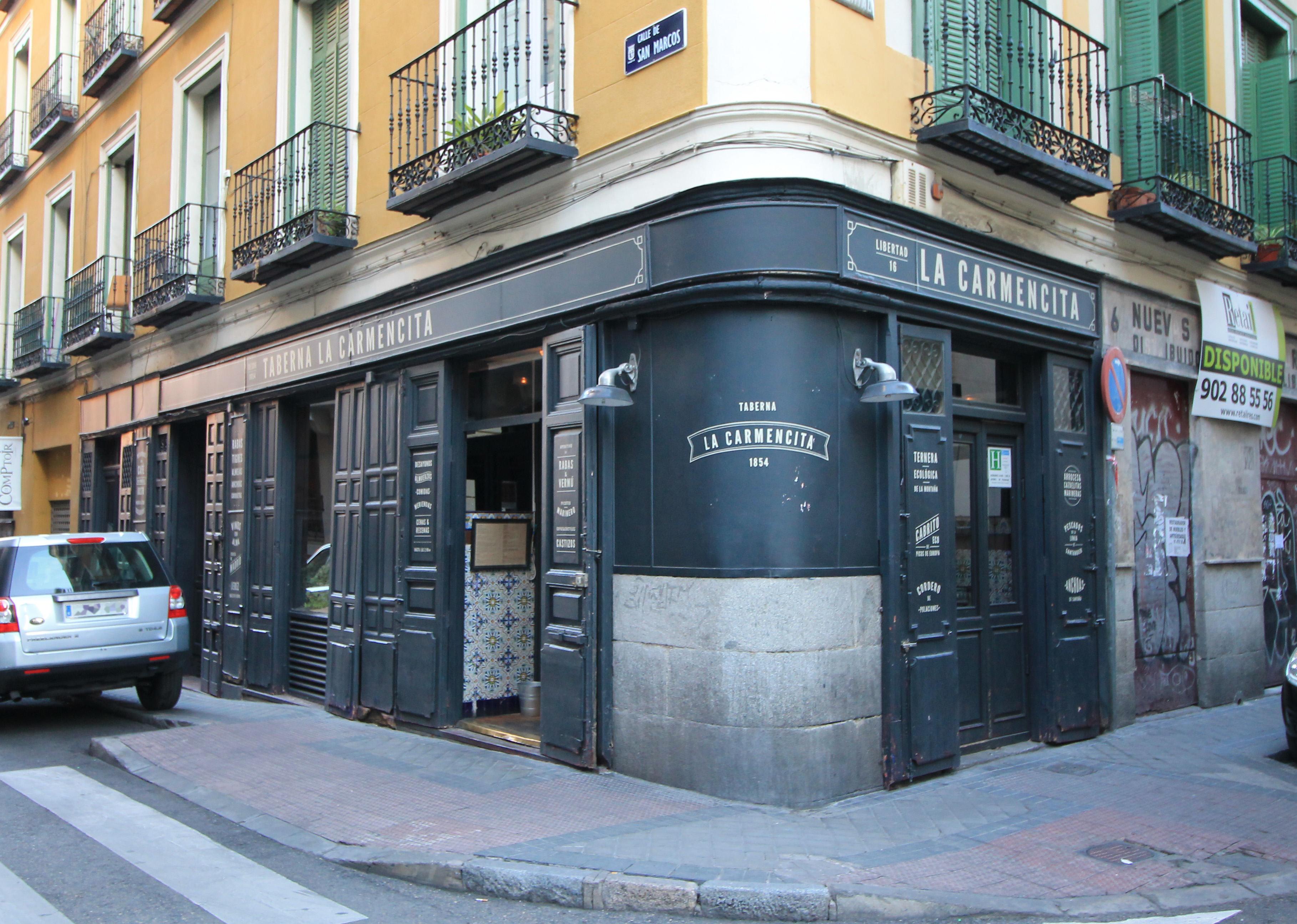 Façade of bar-restaurant Taberna La Carmencita at 16 Calle de la Libertad (street) in Madrid (Spain). Established in 1854.